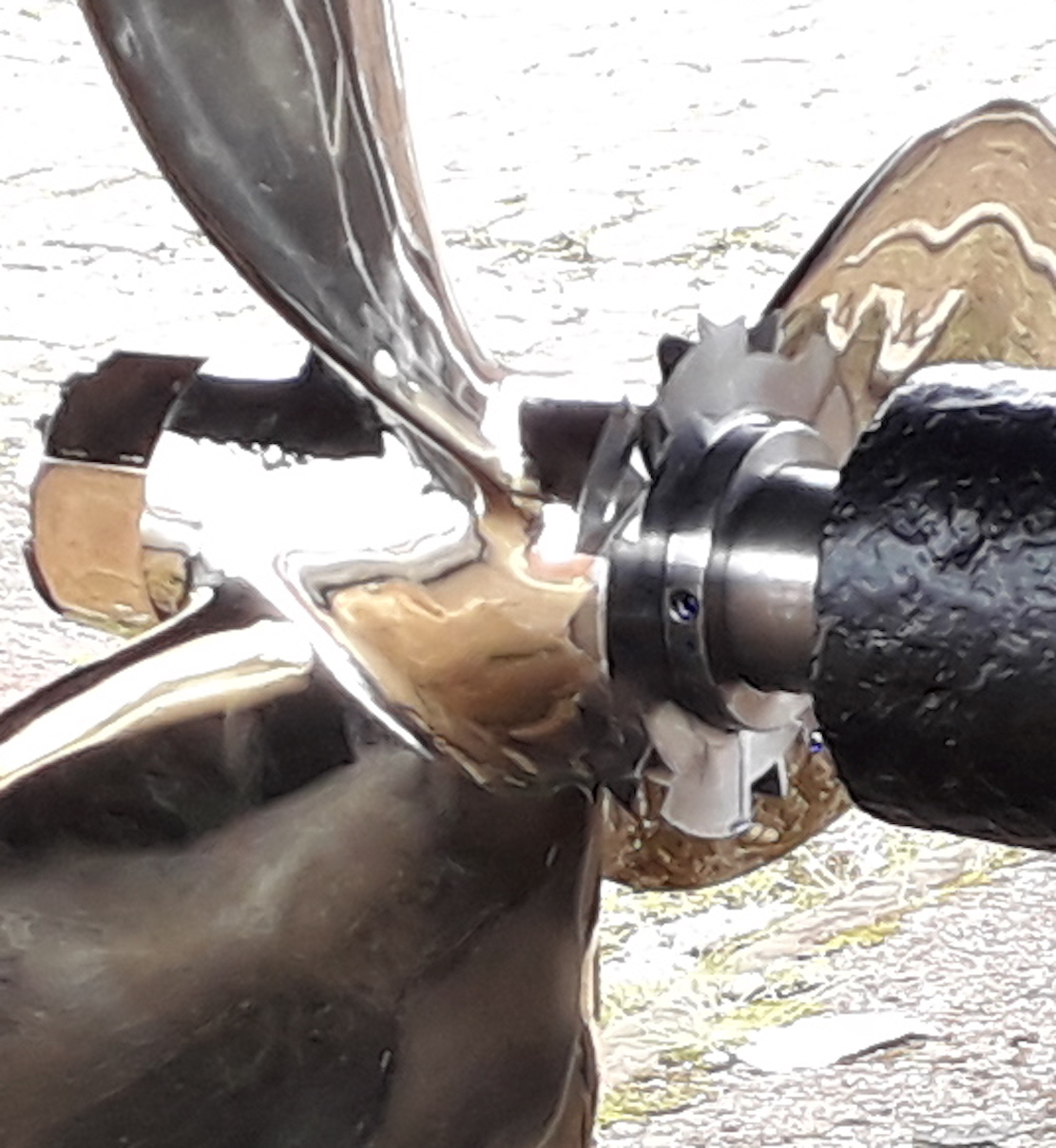 Right-handed 3-blade bronze propeller & stainless steel rope cutter